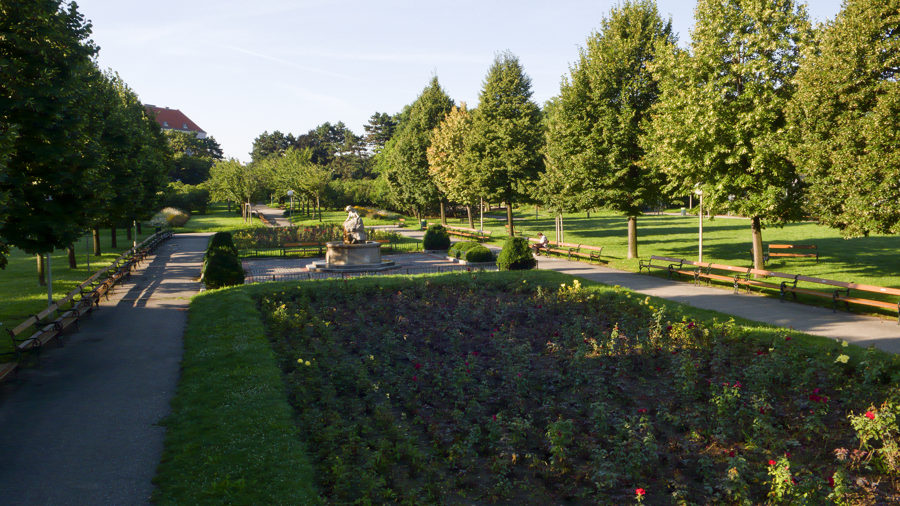 Public park Herderpark in Vienna Simmering